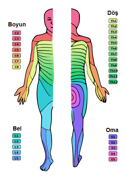 A diagram showing human dermatomes, i.e., skin regions with respect to the routing of their afferent nerves through the spinal cord.